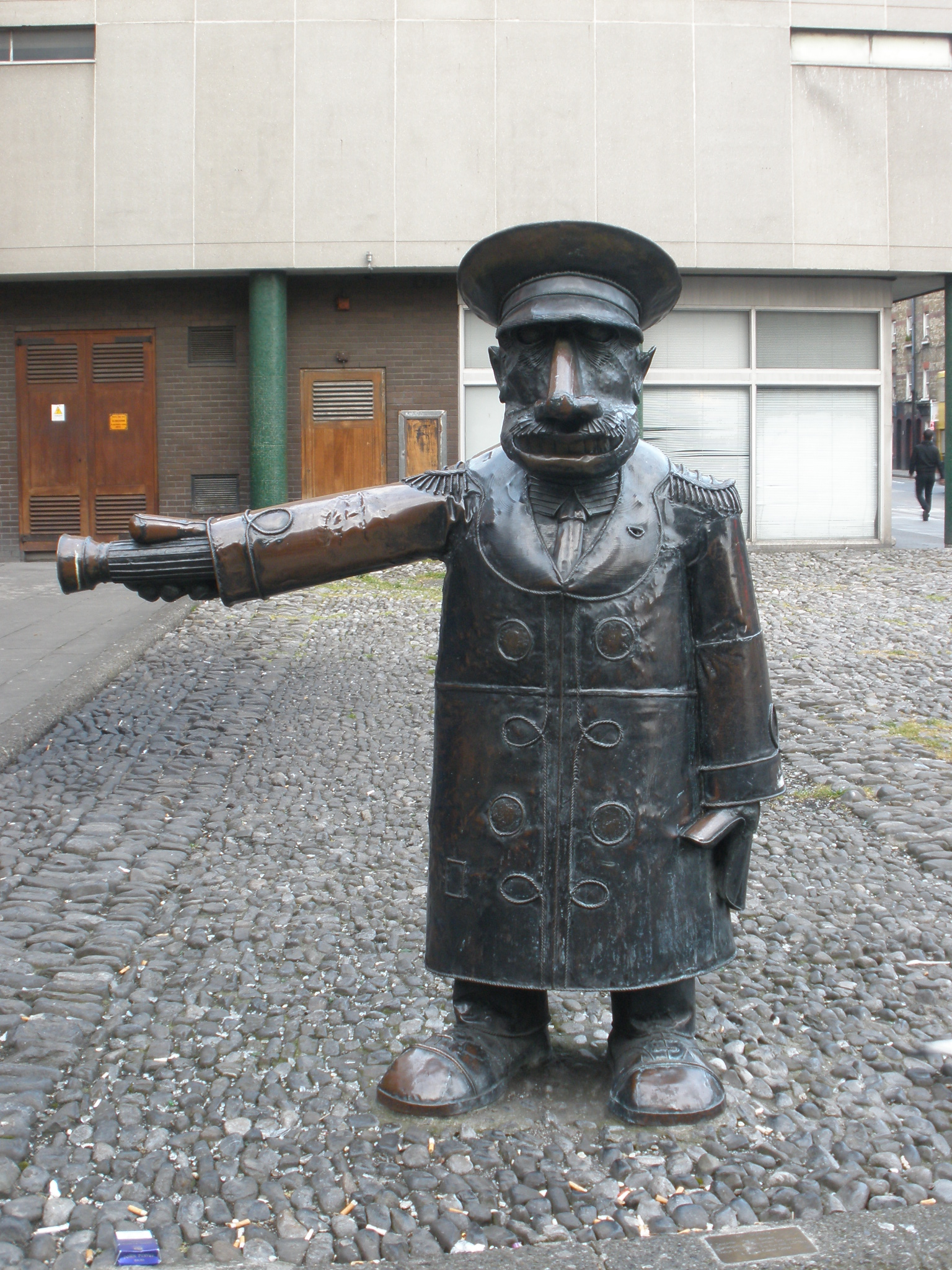 Mr. Screen, a statue of a cinema usher by sculptor Vincent Browne outside the Screen Cinema in Dublin, Ireland, at the junction of Hawkins Street and Townsend Street. The helpful usher wears a smart uniform coat with epaulettes and a peaked cap, and gestures with his torch to direct audience members to their seats in the dark. His delightful leer reveals his love of darkness—with all its opportunities, and everything it hides.